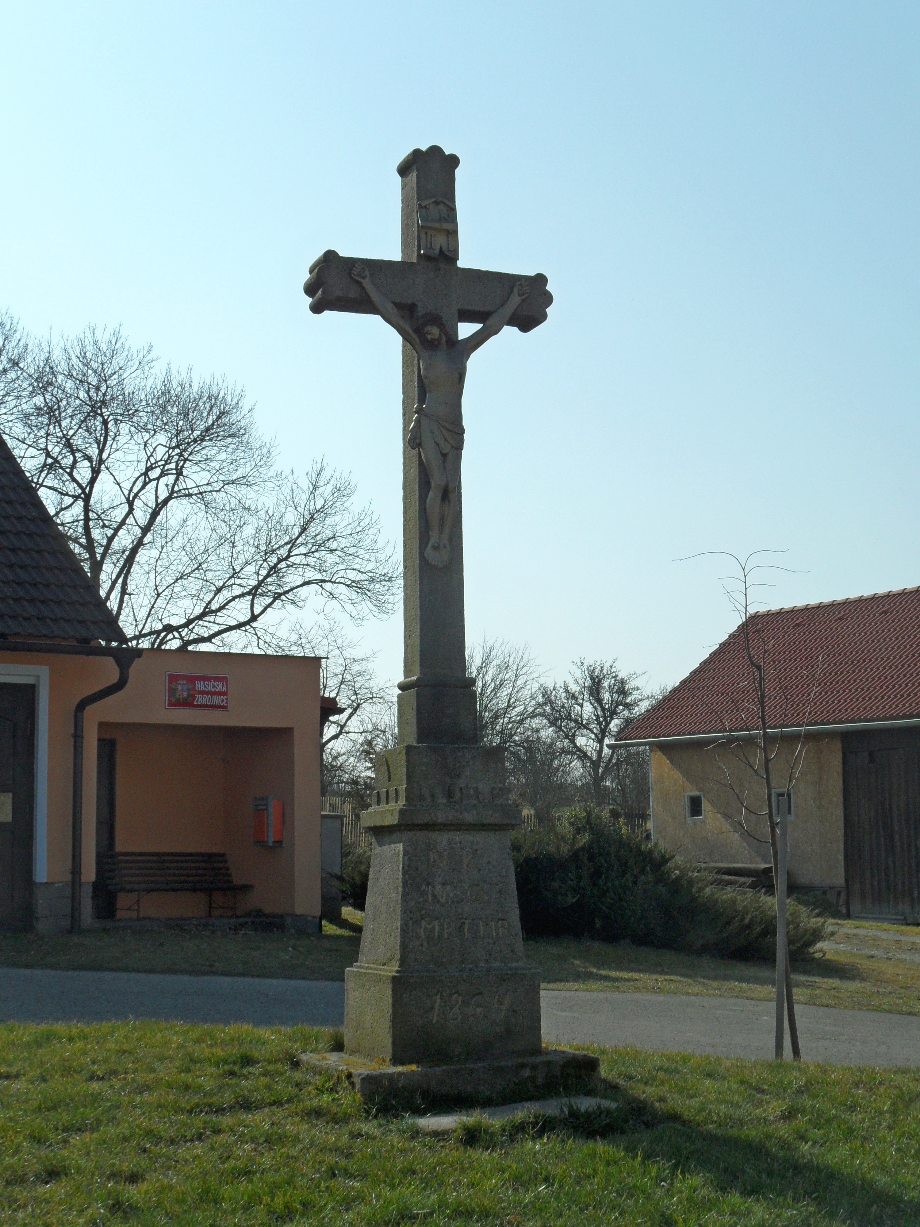 Nová Ves u Leštiny G. Crucifix. Havlíčkův Brod District, the Czech Republic.